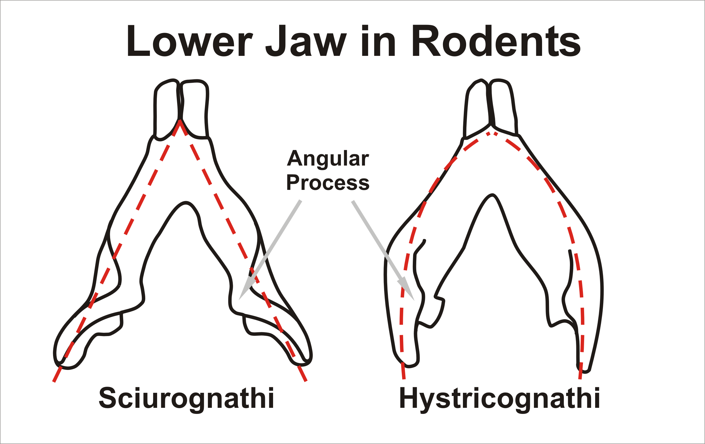 According to Mess, 2011